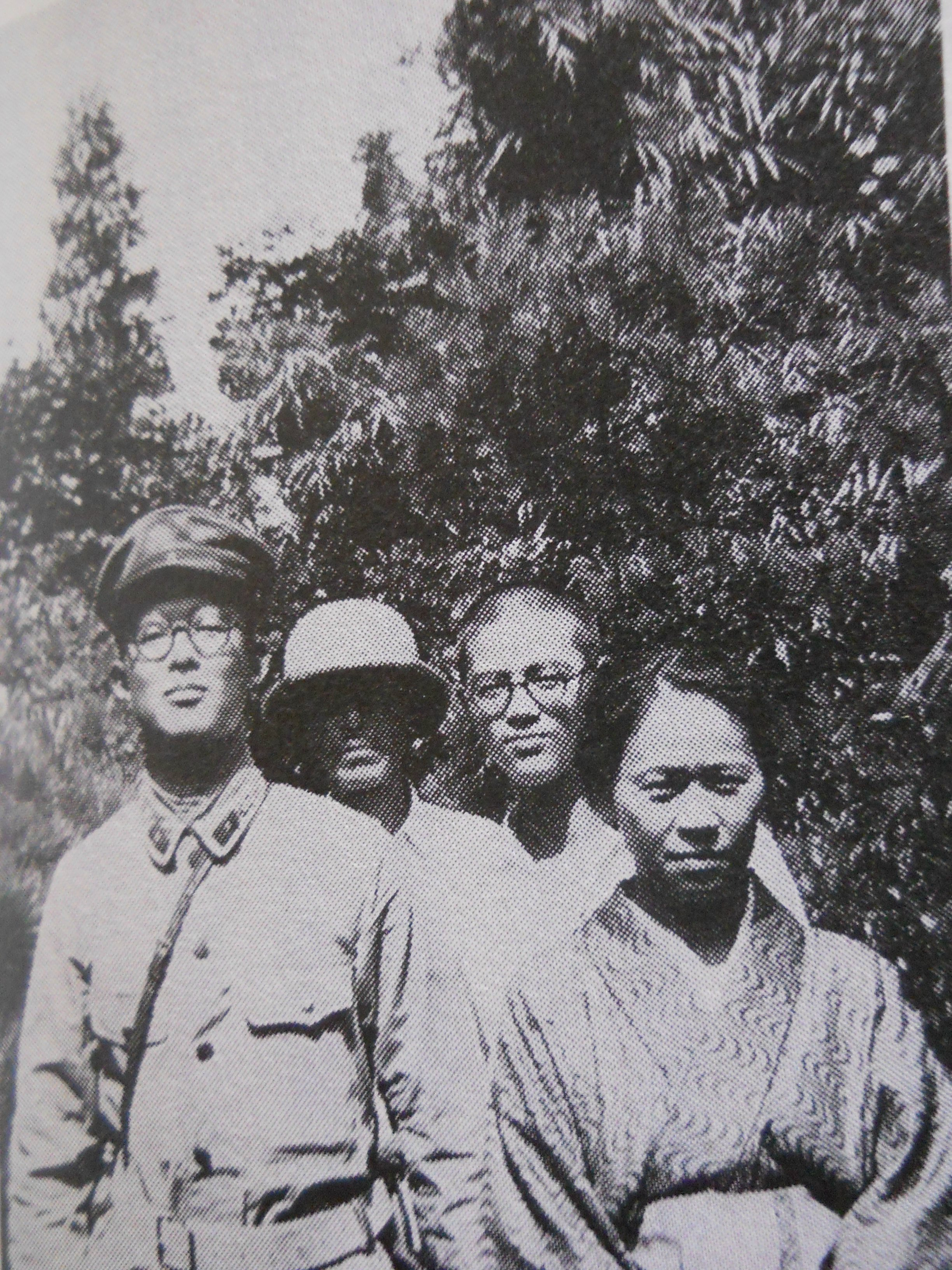 Ｍｕｒａ Ｆａｍｉｌｙ